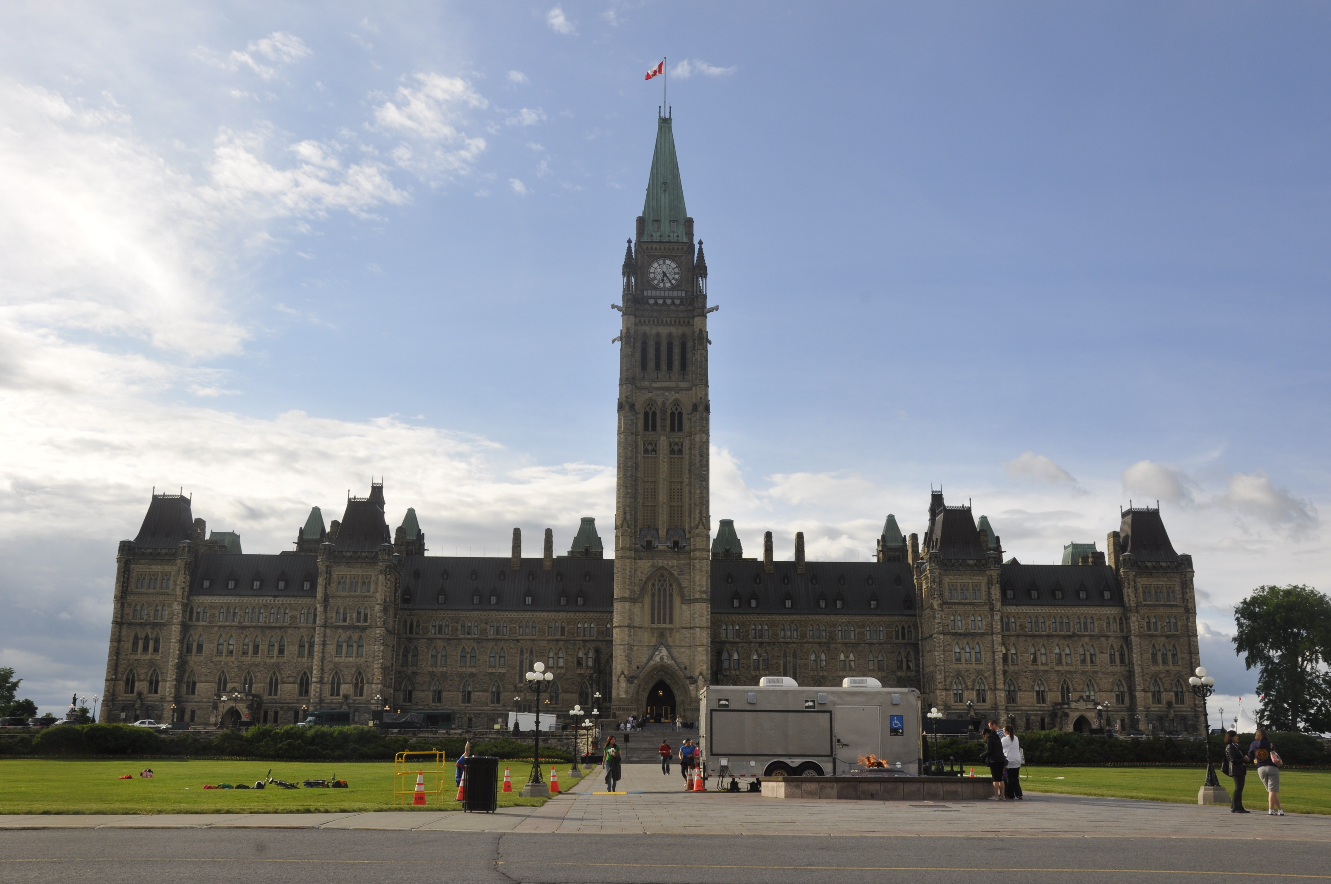 Wide shot of the house of commons, Ottawa